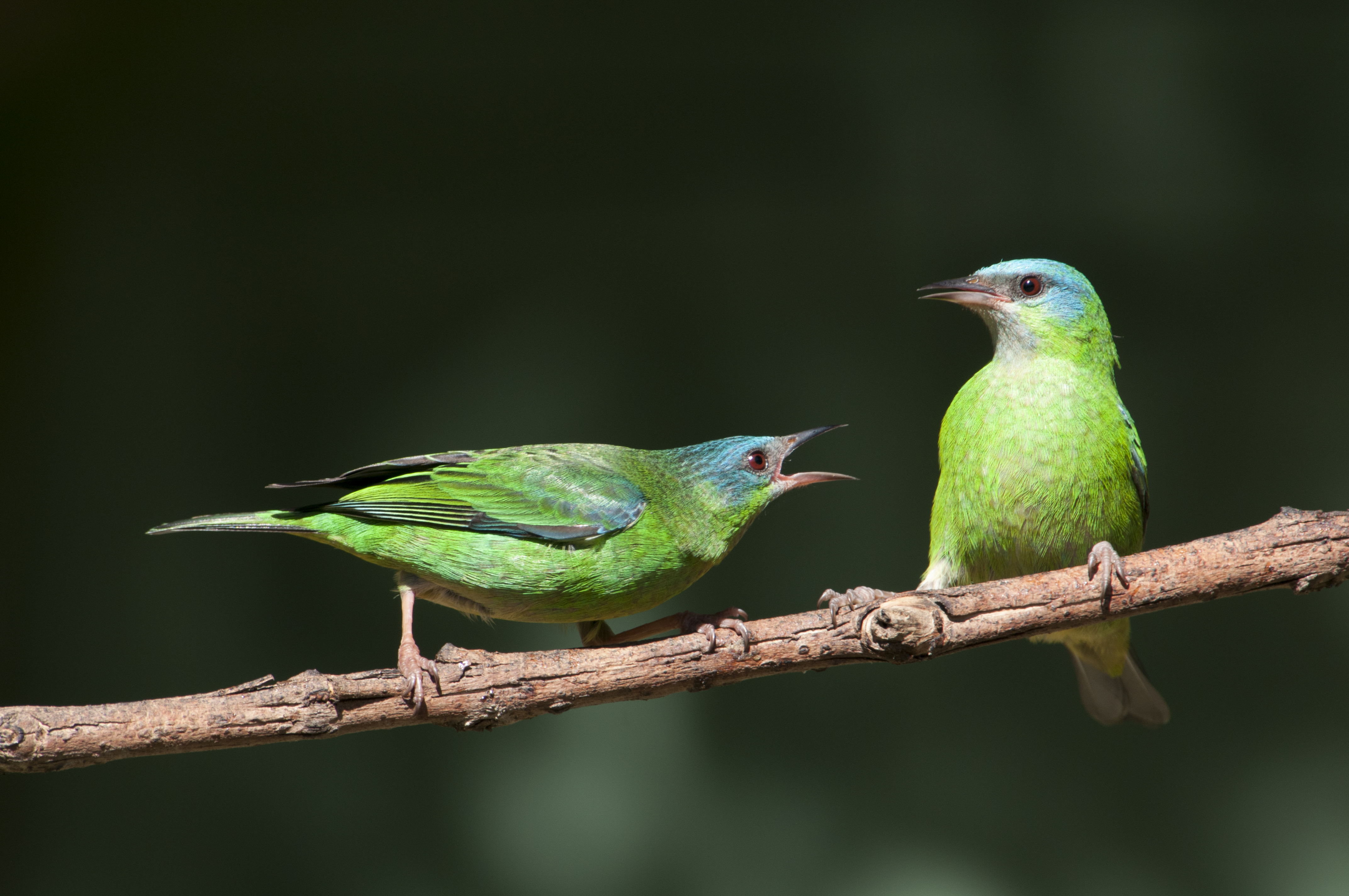 Two females of Saí-azul - Dacnis cayana, fiercely dispute the ownership of a simple twig in the State Park of the Mountain range of the Sea.